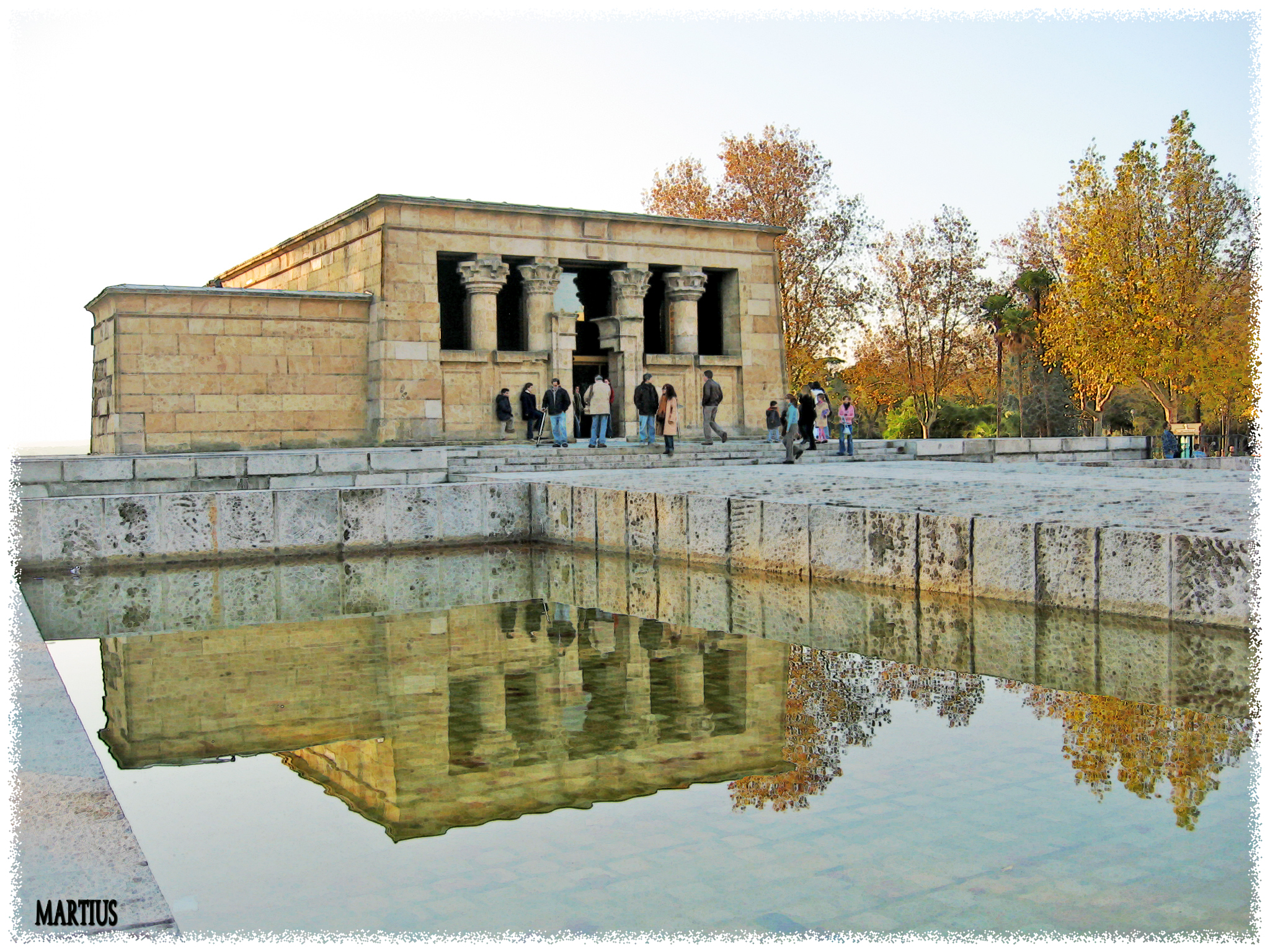 Temple of Debod (Madrid, Spain).